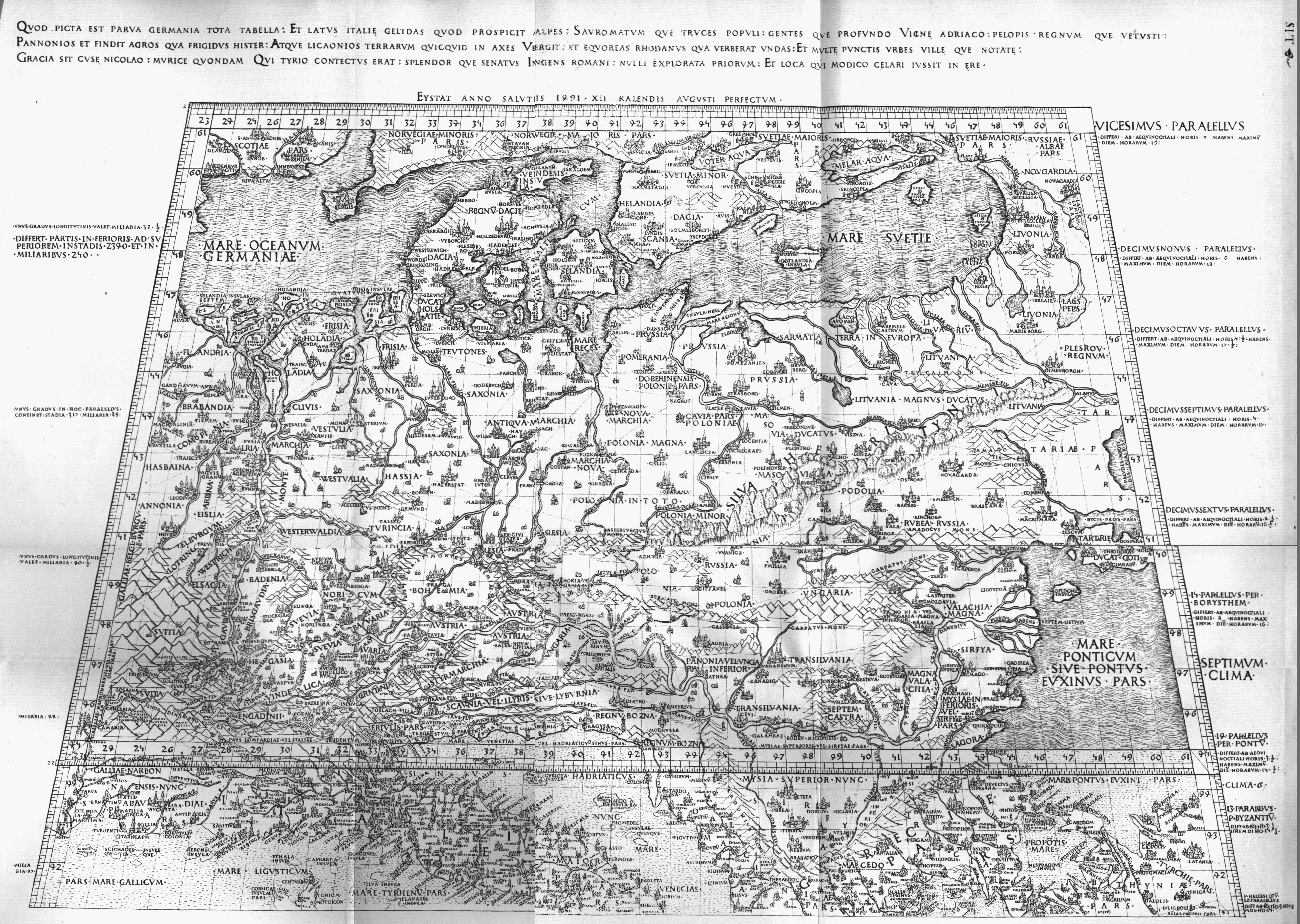 The 4th European Map, depicting Greater Germany, from Ptolemy's Geography. Drawn in 1450, engraved in 1491.